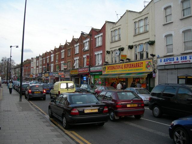 Turnpike Lane, N8 (1) It's late Sunday afternoon and the shops are still busy. Many of them cater for a population of Caribbean, Indian or Turkish origin.